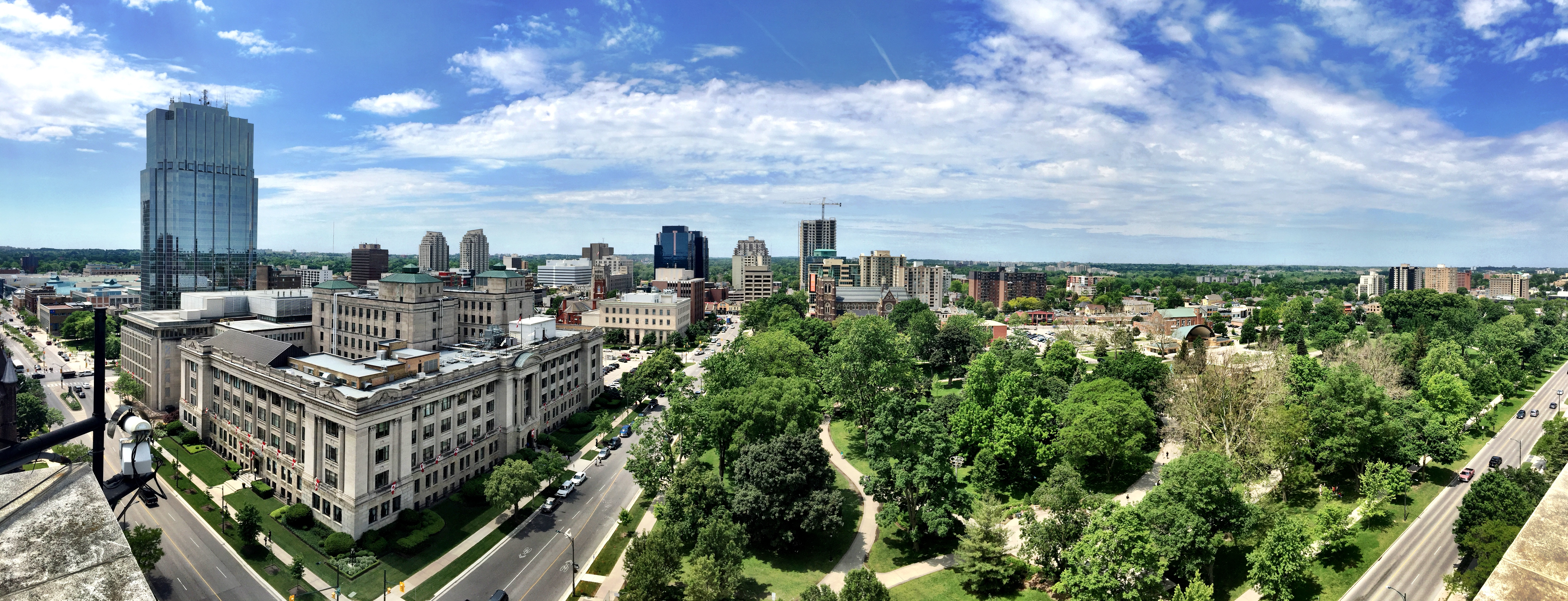 London Ontario Downtown overlooking Victoria Park from the City Hall observation deck.